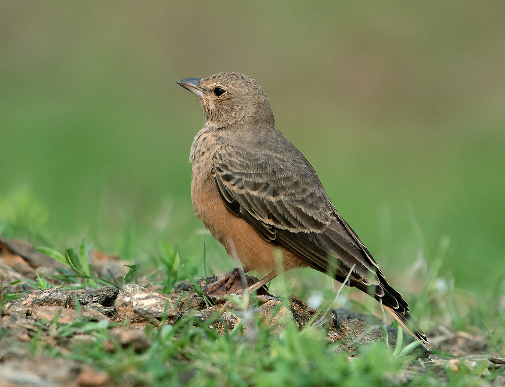 Rufous-tailed Lark ( Ammomanes phoenicurus) is a common resident Lark of Central India, often seen in stony, fallow lands and the edges of cultivation. Seen in Nasirabad, Rajasthan. Please view Large